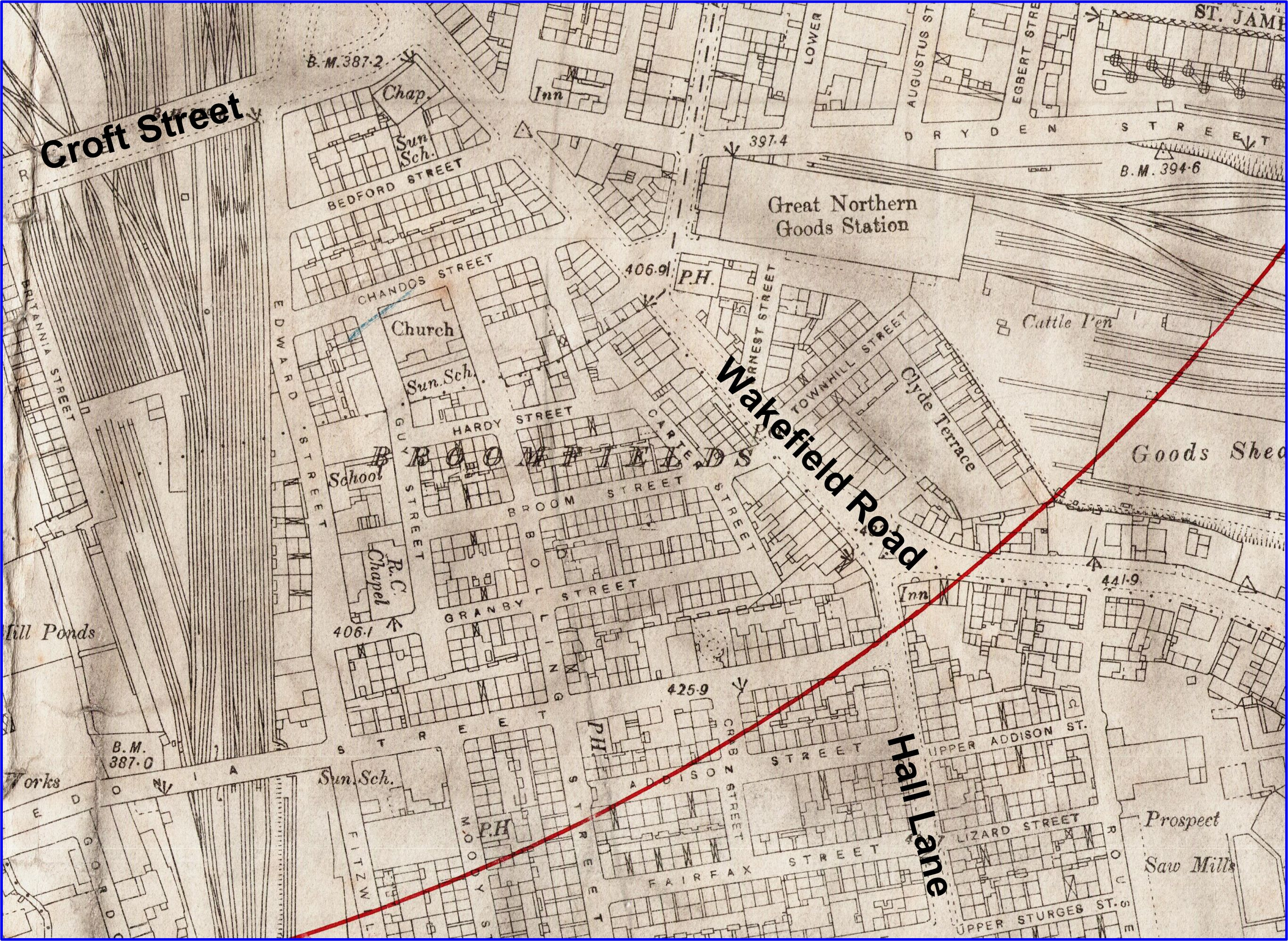 Part of 1893 1:2500 OS map "Central Bradford" Broomfields area